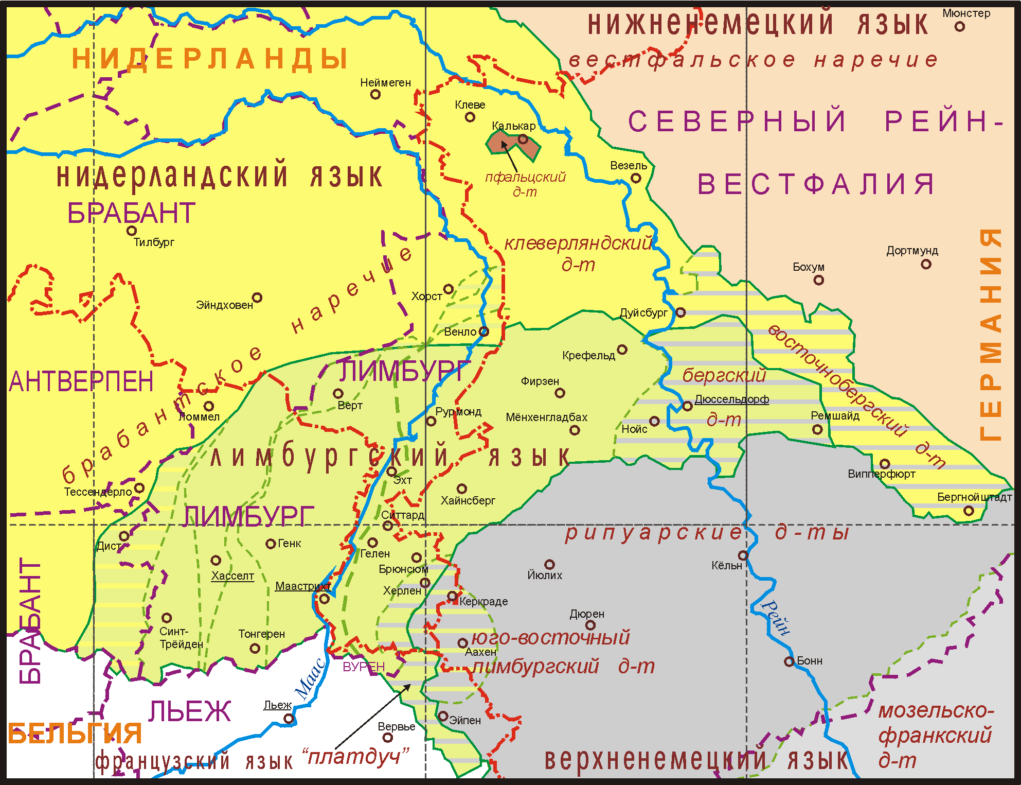 Languages of Meuse-Rhenish area including Limburgish. Russian version.